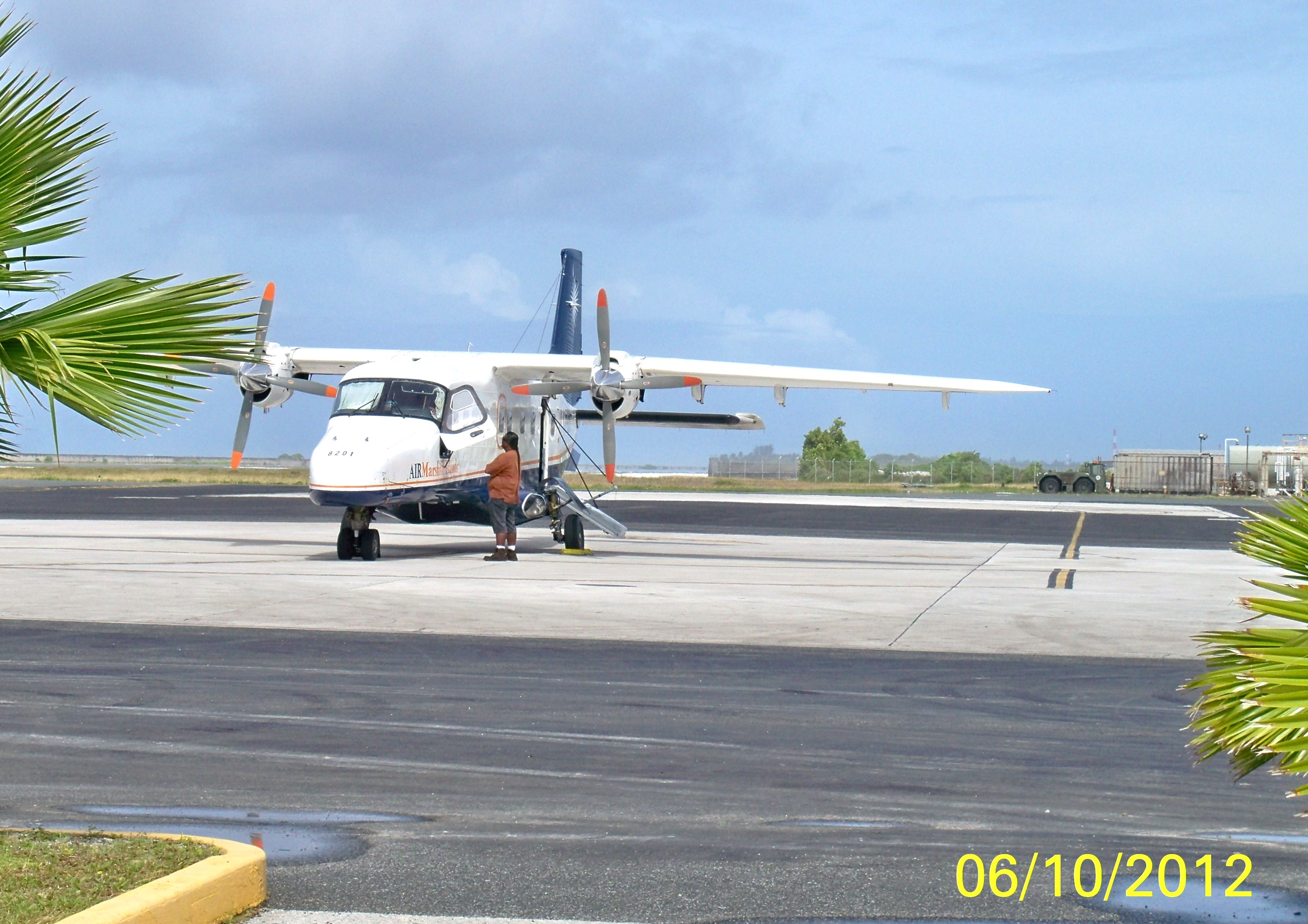 At Majaro waiting for flight to board.